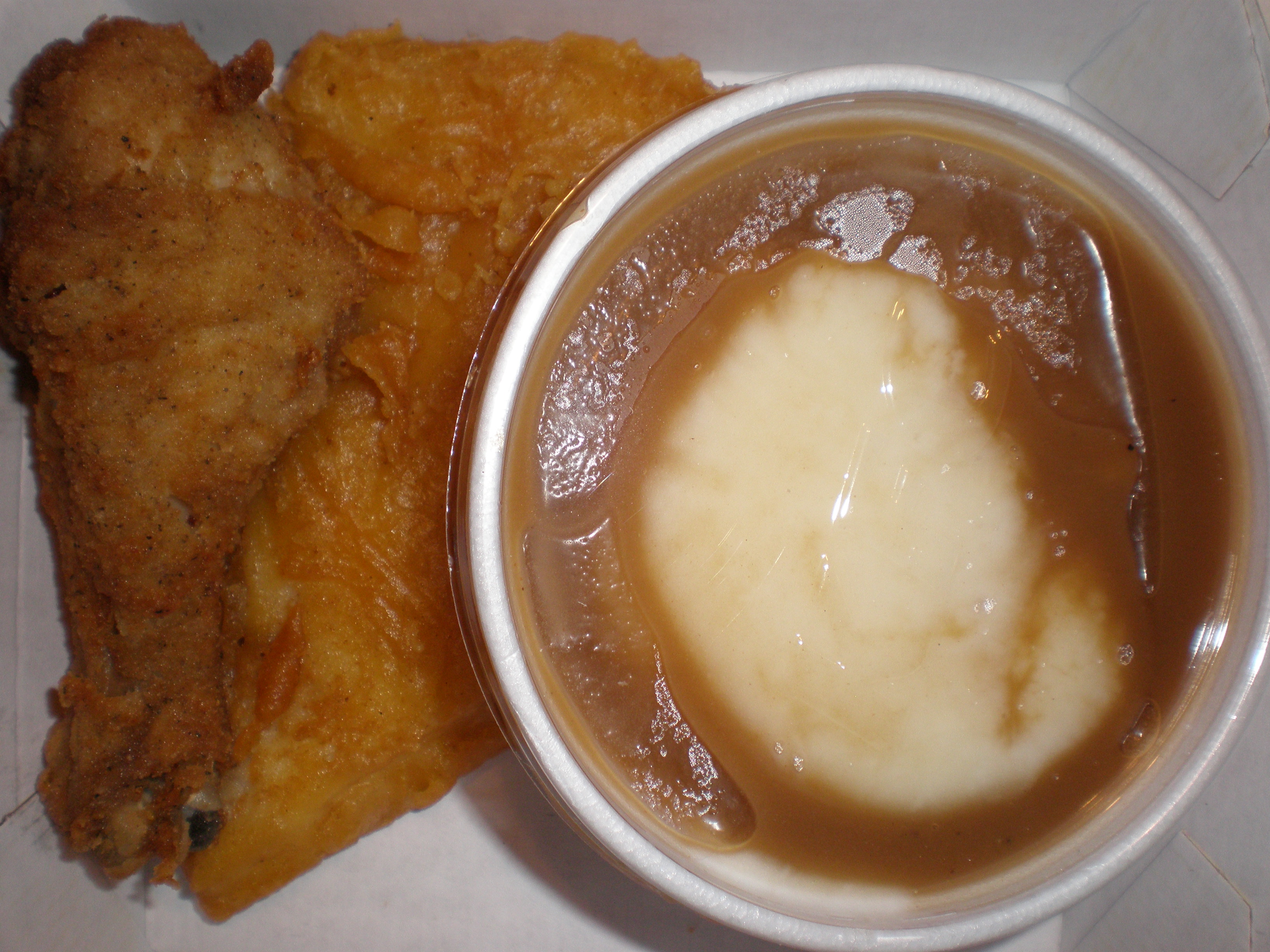 A KFC Pick 3 Combo combo meal enabling the customer to pick among various KFC and Long John Silver's foods. This meal includes 1 Original Recipe drumstick (KFC), 1 fish (LJS), and mashed potatoes and gravy (KFC).